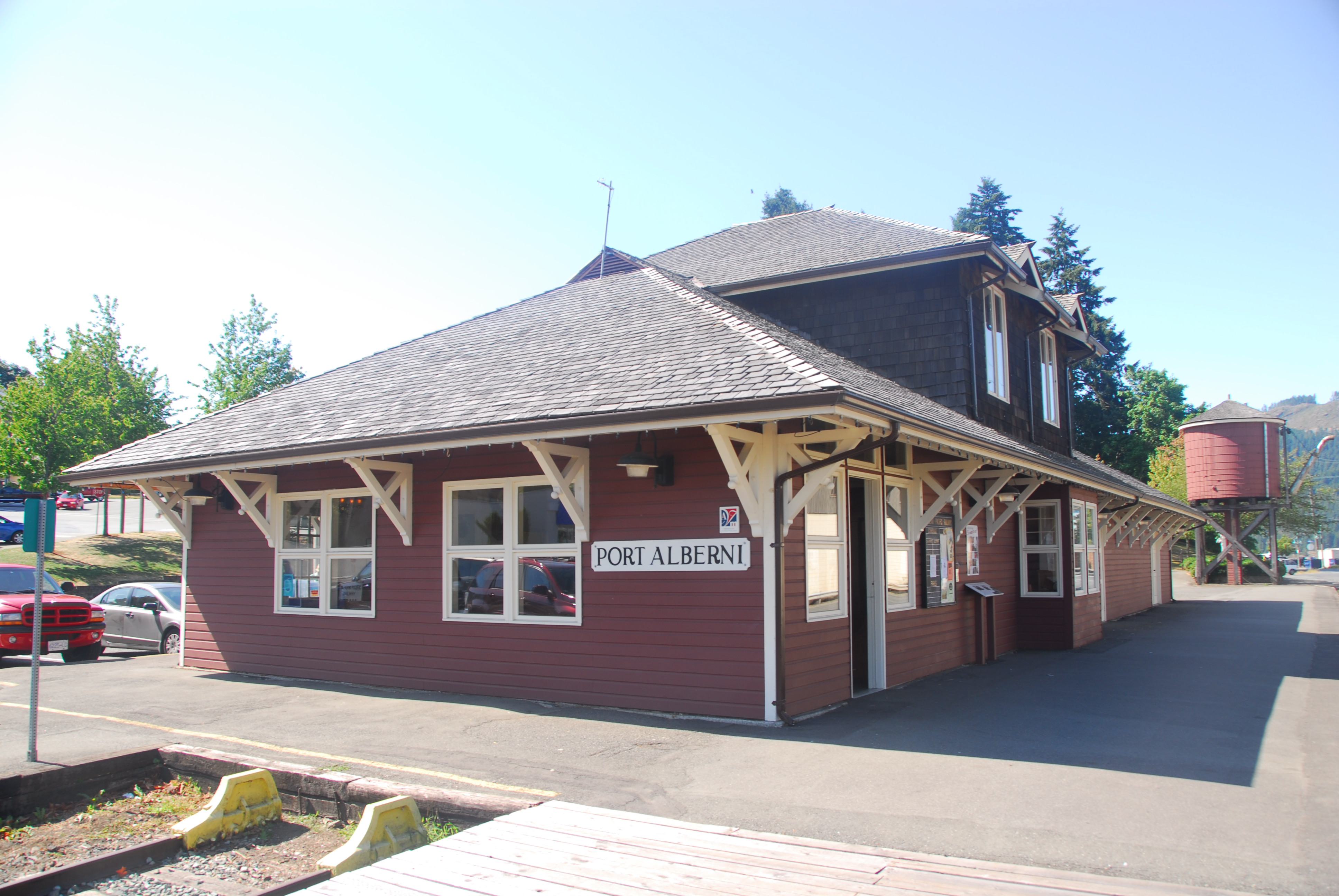 Port Alberni Station on the Southern Railway of Vancouver Island in Port Alberni, British Columbia, Canada. The station is part of the heritage Alberni Pacific Railway.